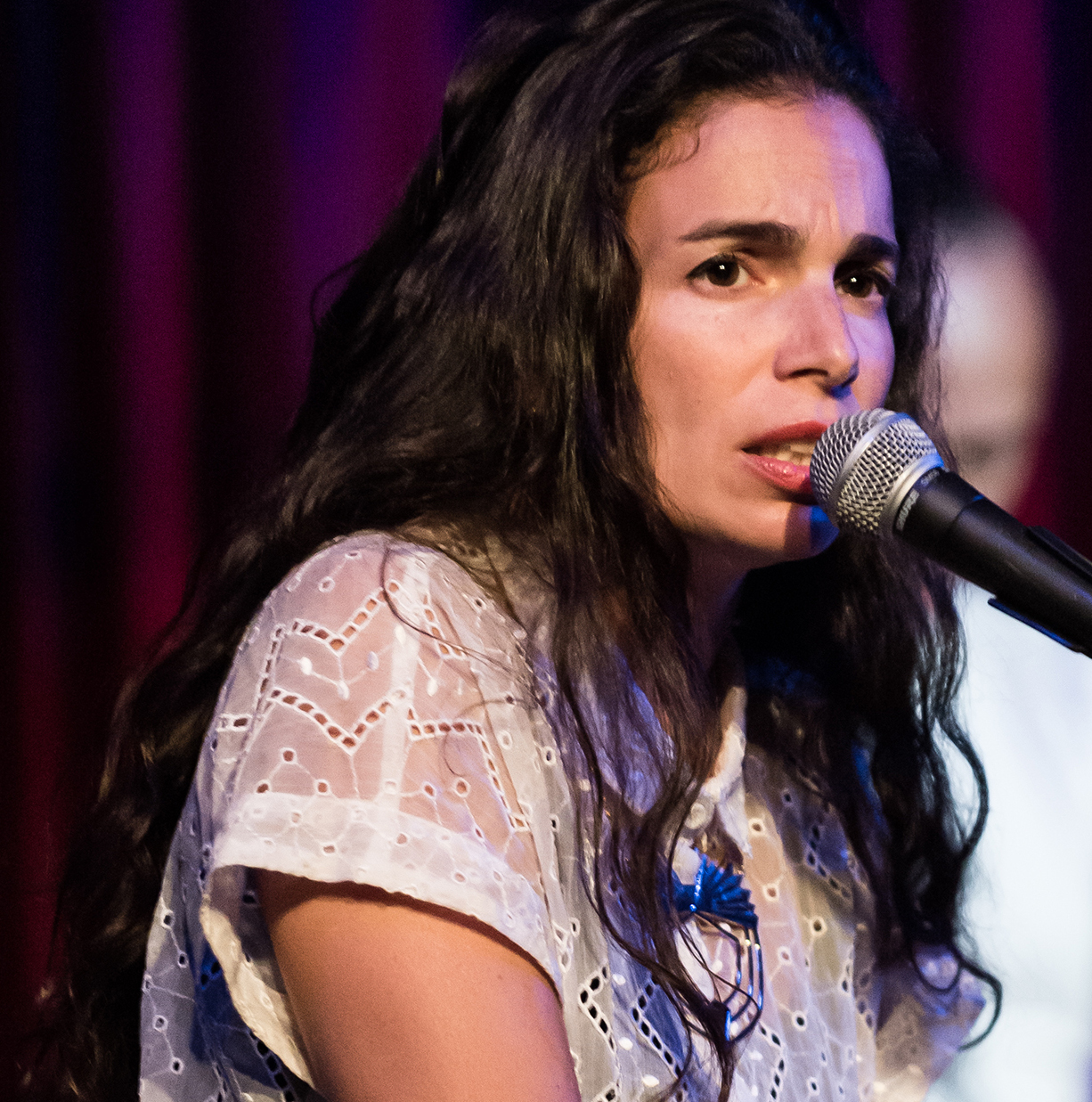 Yael Naim at the Hotel Cafe